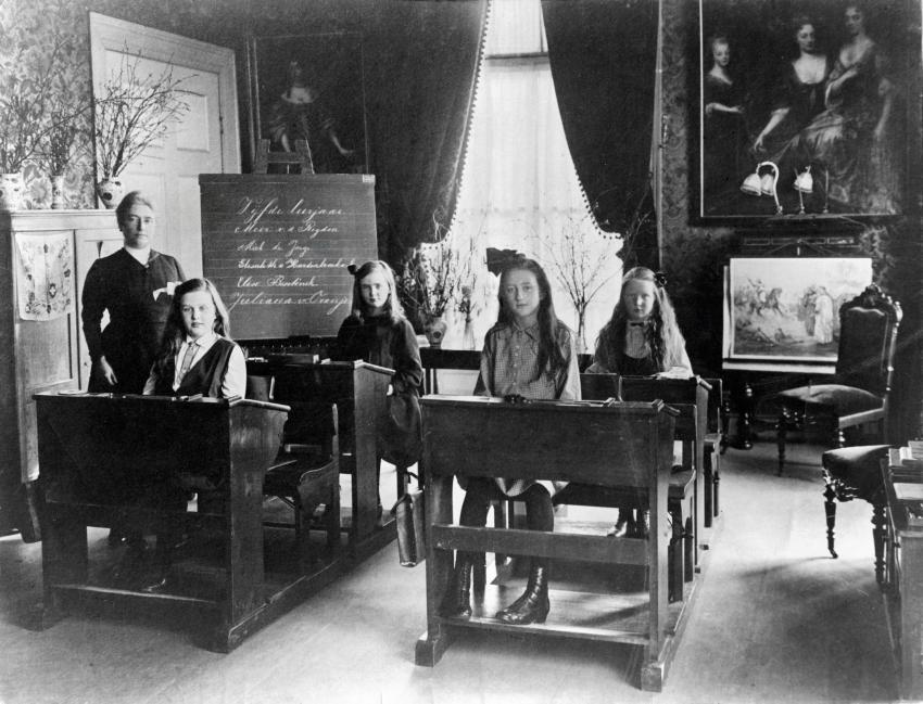 Princess Juliana (R) in her 5th grade classroom.